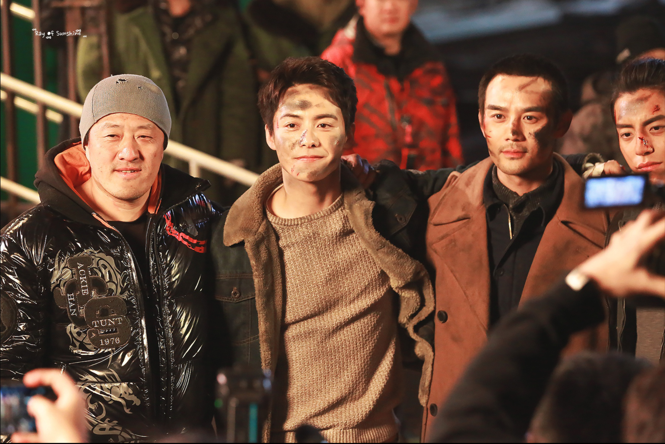 Ma Tian Yu, Wang Kai, Wang Dalu in A Better Tomorrow (2018) on March 22, 2017